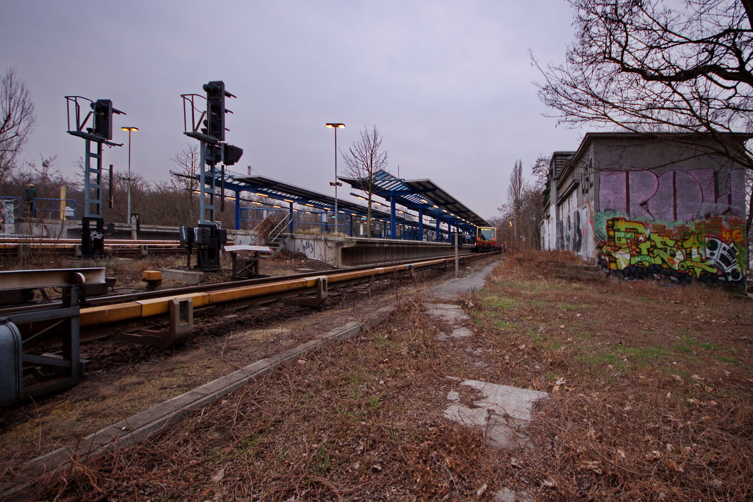 Am Treptower Park